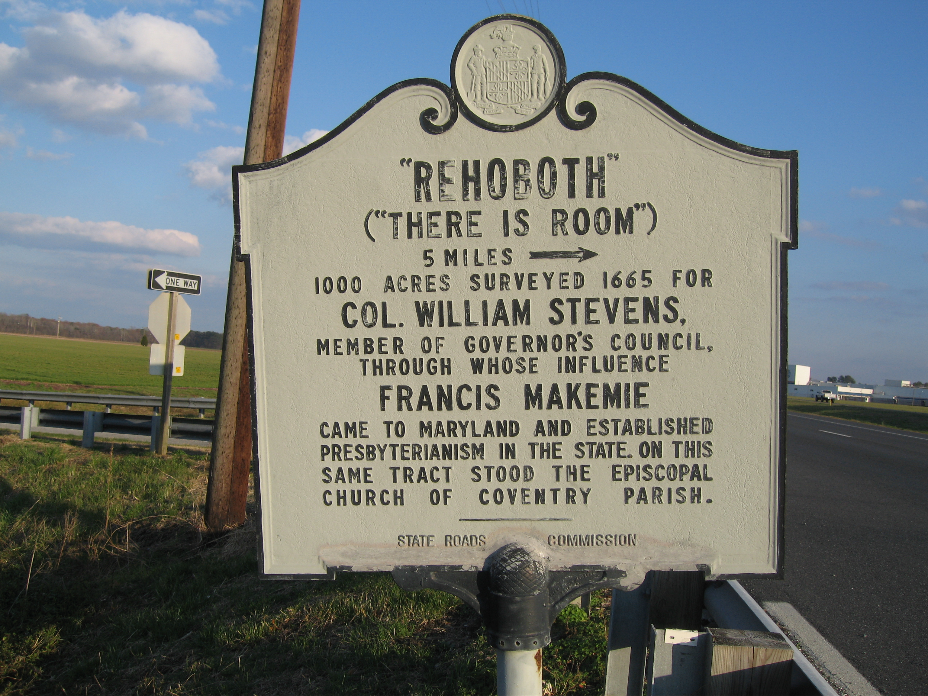 Historical marker designating Rehoboth. This marker is located on the east side of U.S. Route 13 just north of Davis Store Road in Somerset County, Maryland. Photograph taken facing south with Davis Store Road shown on the left side of the photograph and U.S. Route 13 on the right.